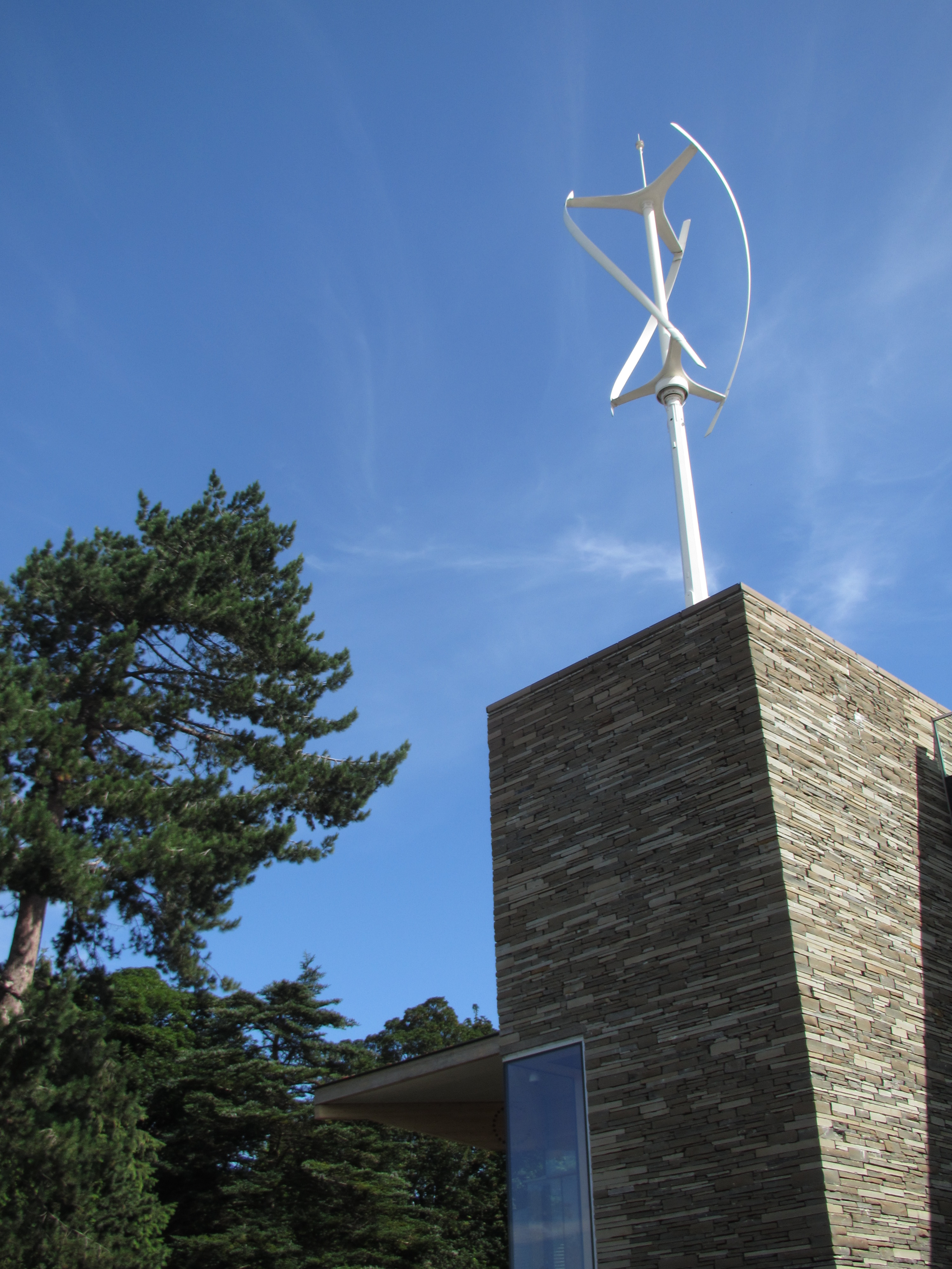 wind turbine, Royal Botanic Garden Edinburgh, West Gate, Arboretum Place, John Hope Gateway